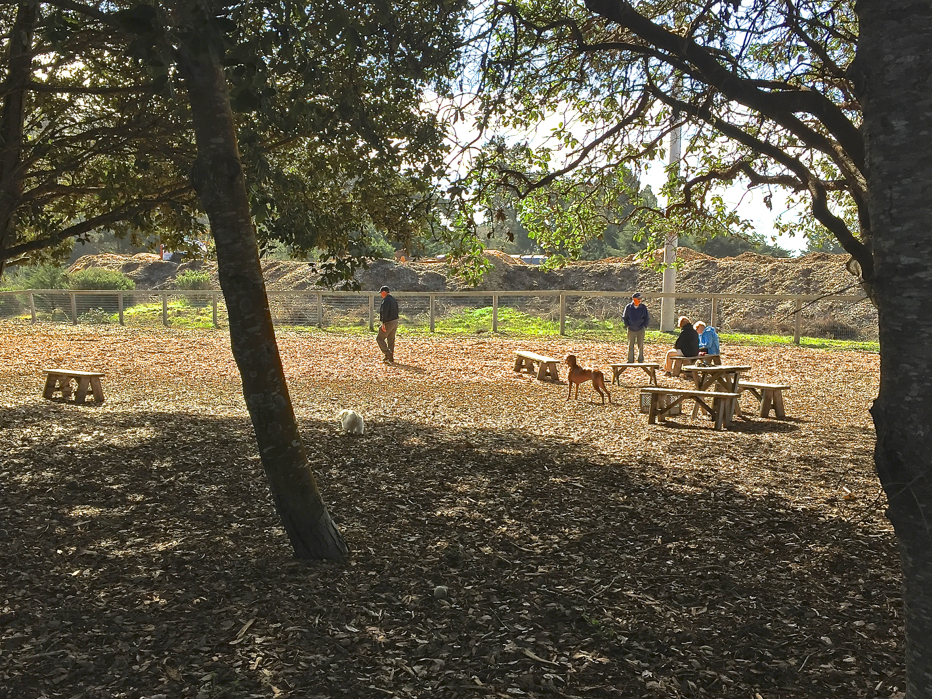 Dogs and owners both love the Sea Ranch Dog Park. Owners frequently catch up with neighbors and chat with visiting guests while pups play on.